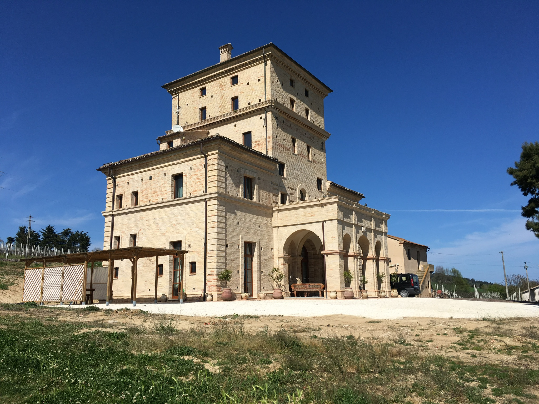 Side view of Il Palombarone from April 2017